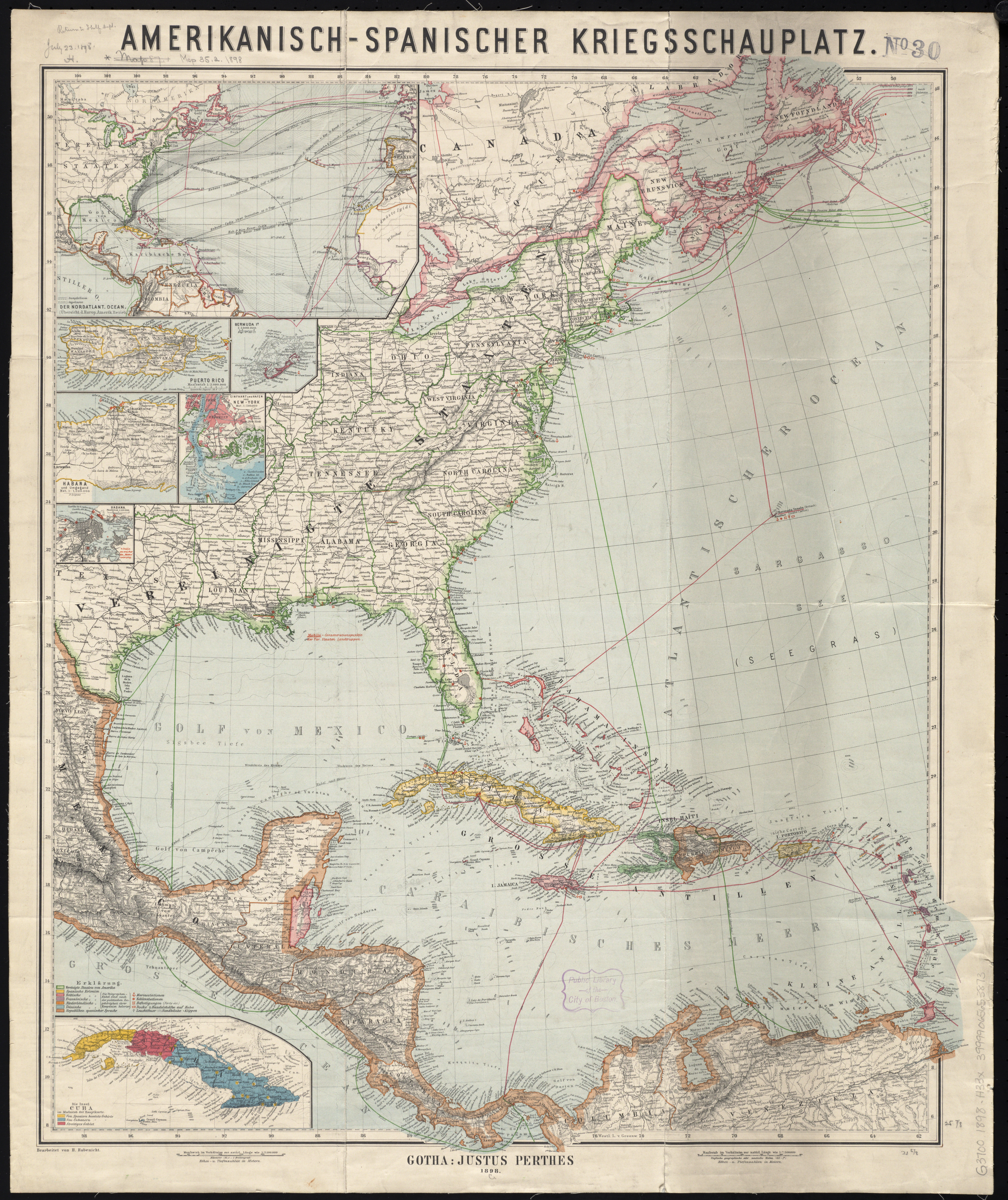 Zoom into this map at . Author: Habenicht, H. Publisher: Justus Perthes (Firm : Gotha, Germany) Date: 1898 Location: North America, United States Dimension 69 x 58 cm. Scale: 1:7,500,000 Call Number: G3700 1898 .H33x